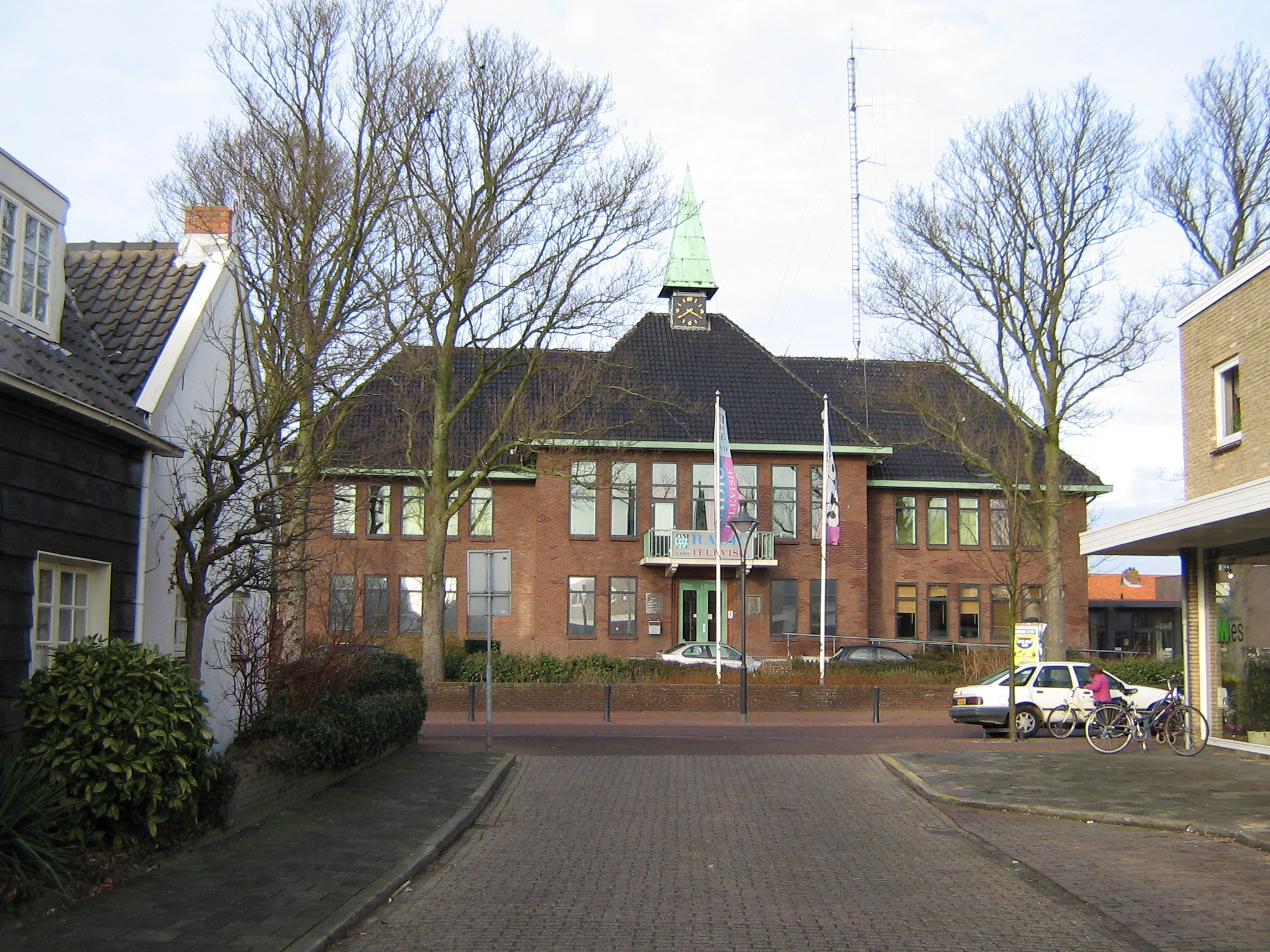 Oost Souburg (Vlissingen, Netherlands), former town hall, now studio for regional broadcasting corporation (Omroep Zeeland).